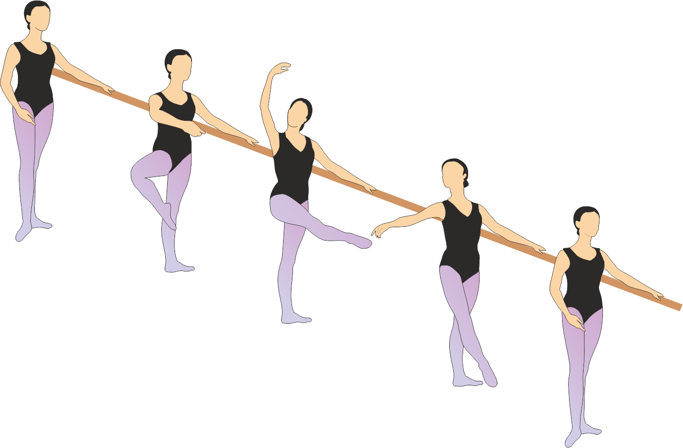 Ballet barre exercises: Developpé en avant